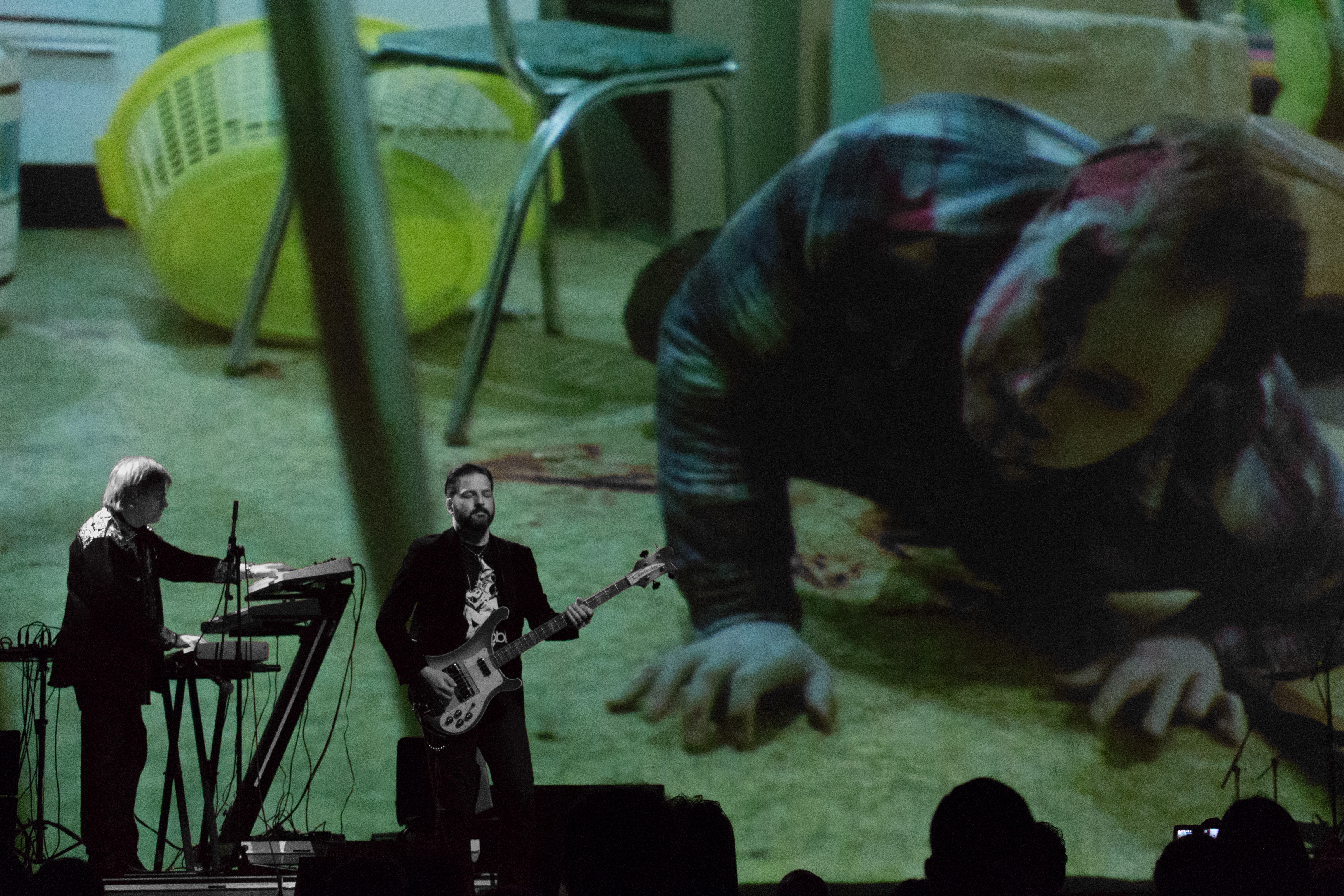 Claudio Simonettis Goblin performing at Roadburn Festival, april 2015